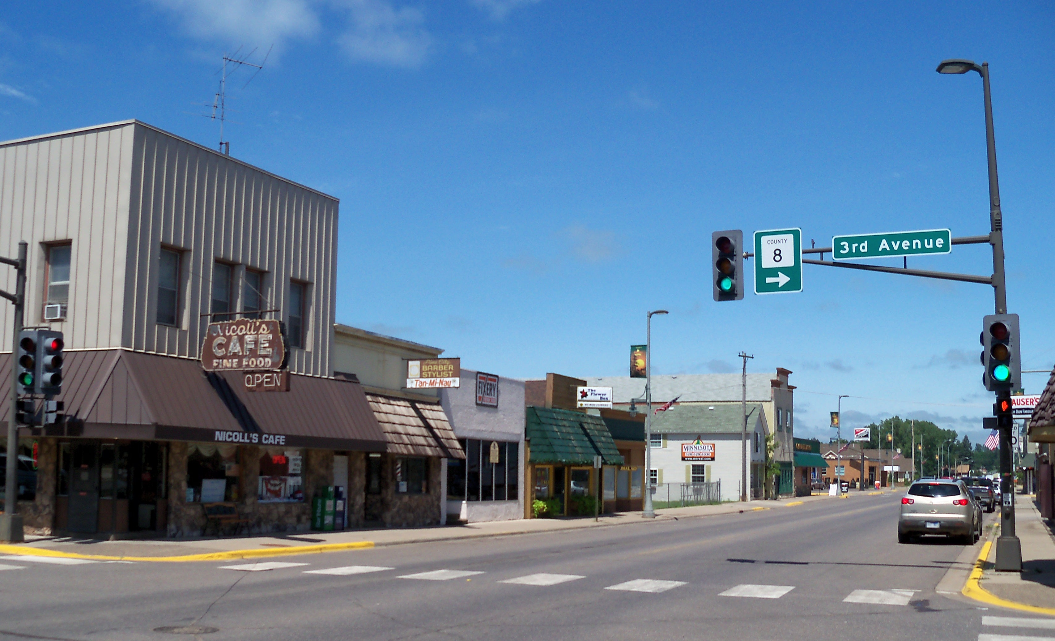 Street in Pine City, Minnesota, USA.